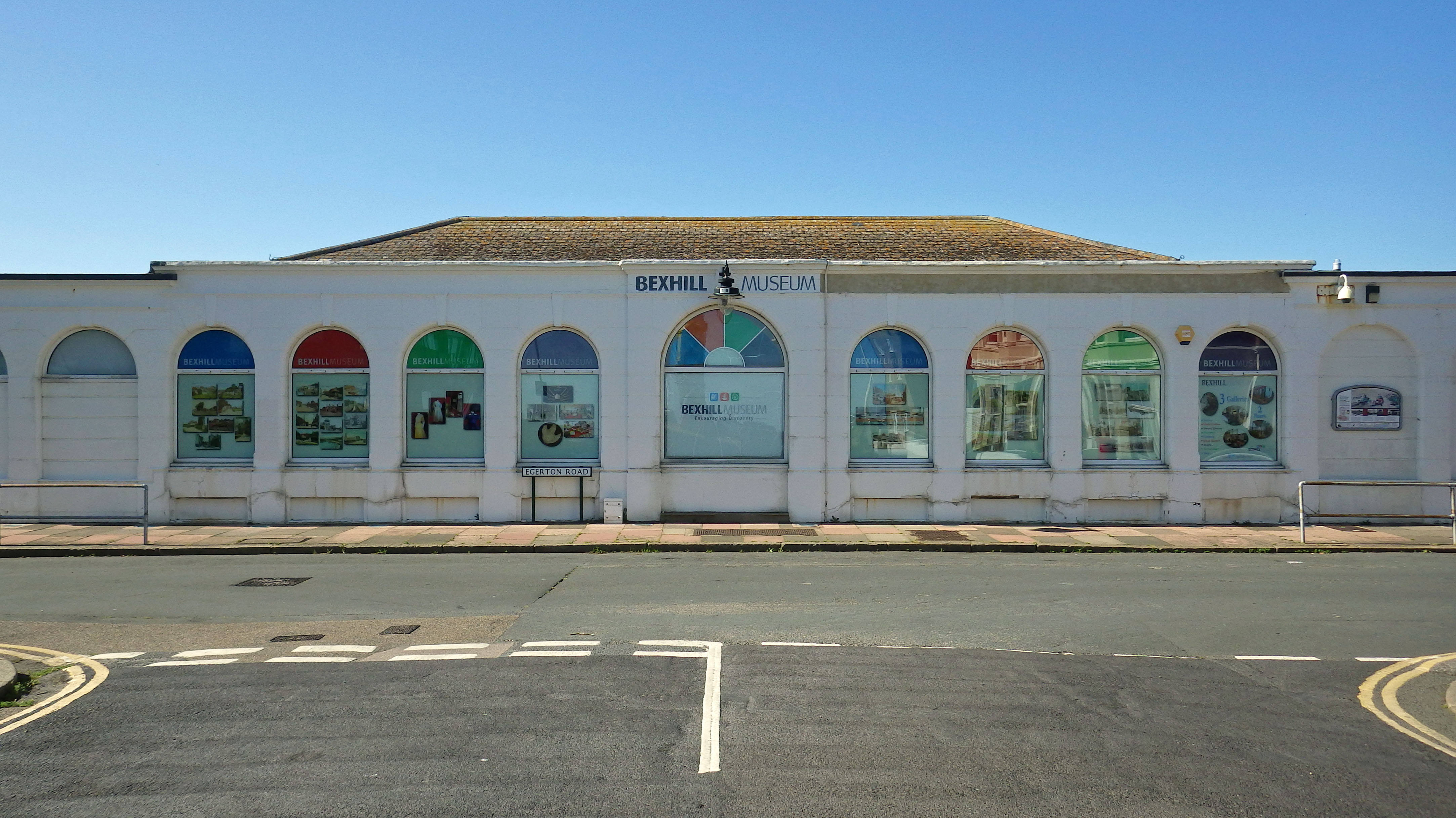 Front of building facing north along Park Avenue.